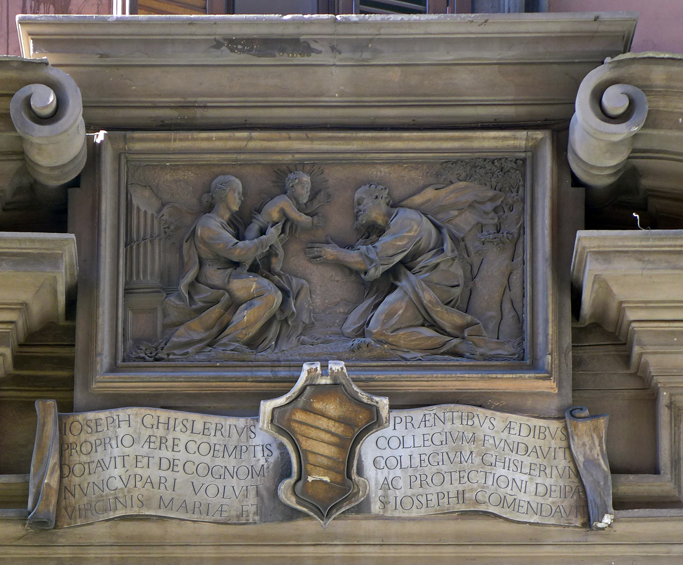 Via Giulia (Rome); Collegio Ghislieri; Entrance